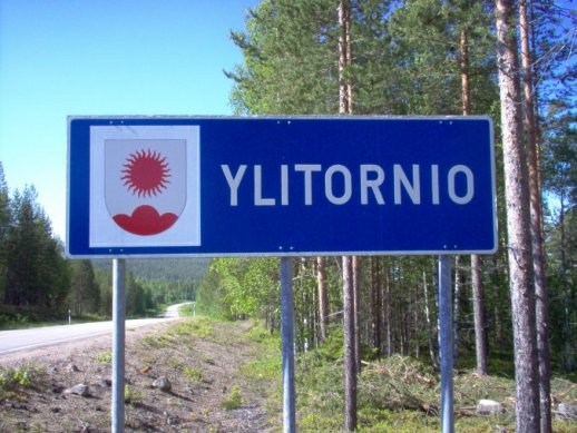 Municipal border sign of Ylitornio, Finland